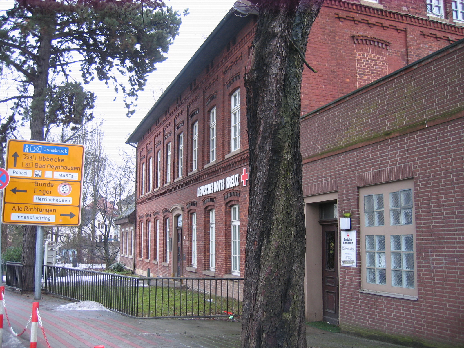 in Herford, District of Herford, North Rhine-Westphalia, Germany.